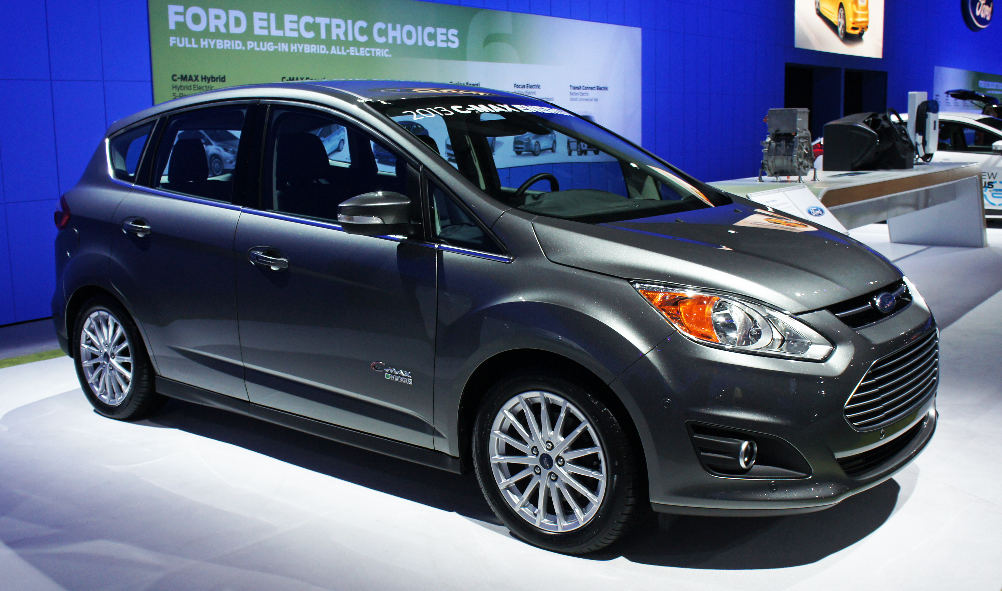 2013 Ford C-Max Energi plug-in hybrid exhibited at the 2012 Washington Auto Show (District of Columbia)